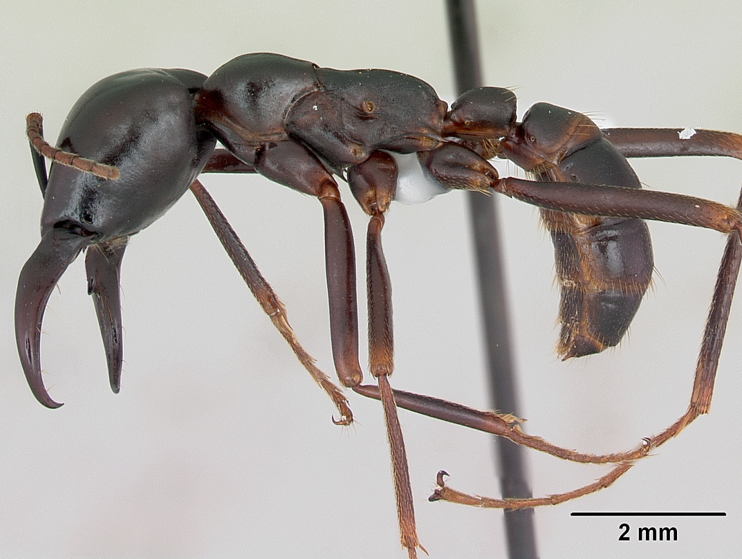 Profile view of ant Dorylus nigricans specimen casent0172642.